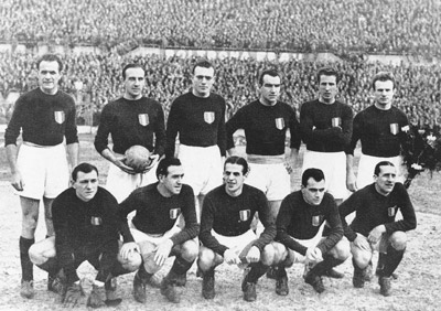 Grande Torino 1949